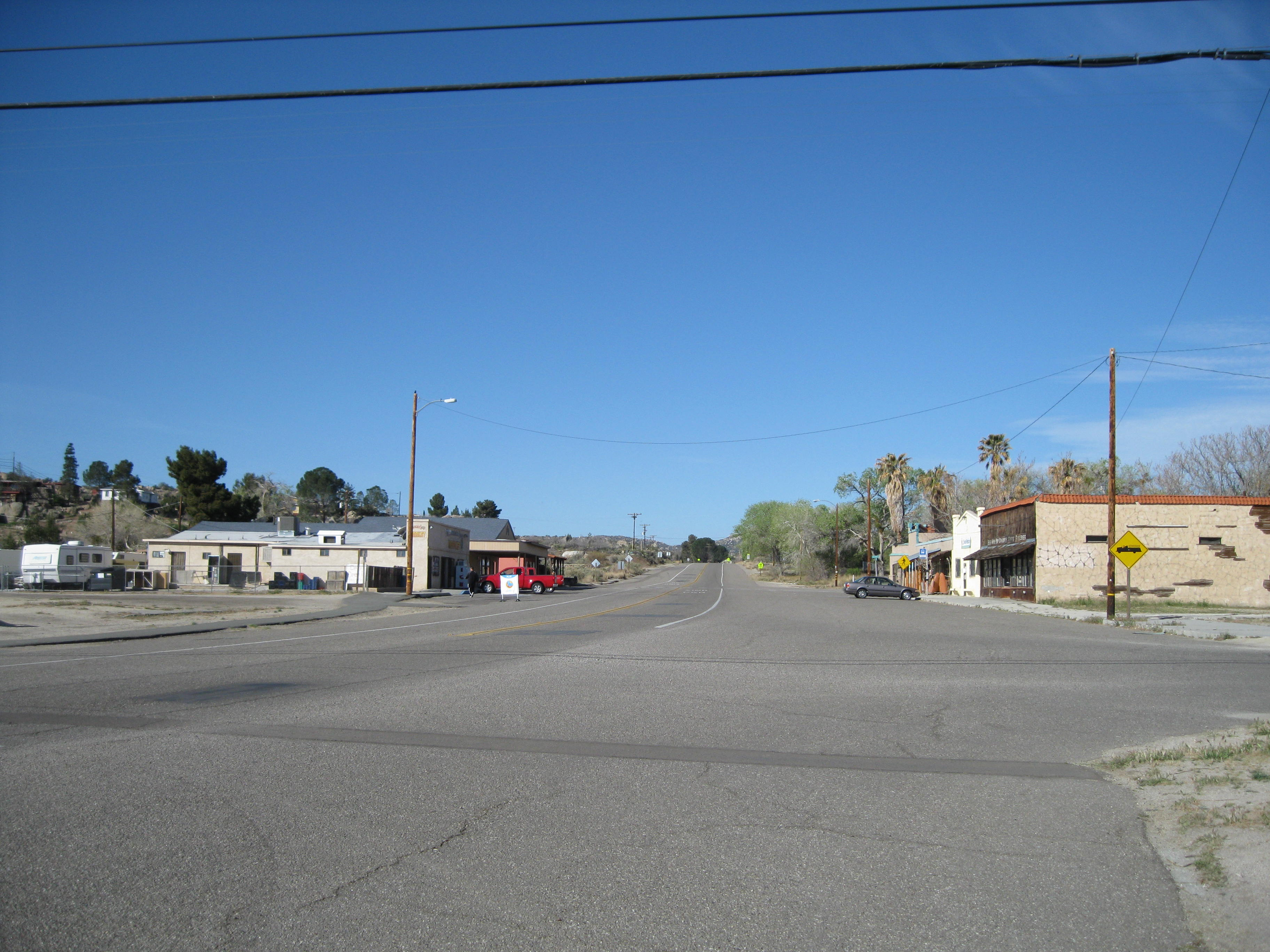 Center of Jacumba, California on Old Highway 80